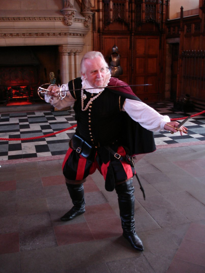 Denis Reid, a re-enactor portraying James Hepburn, 4th Earl of Bothwell, in the great hall of Edinburgh Castle. Additional I actually received permission from Historic Scotland on behalf of the re-enactor, to publish this photo. E-mail available from me on request. njan 18:30, 9 May 2007 (UTC)